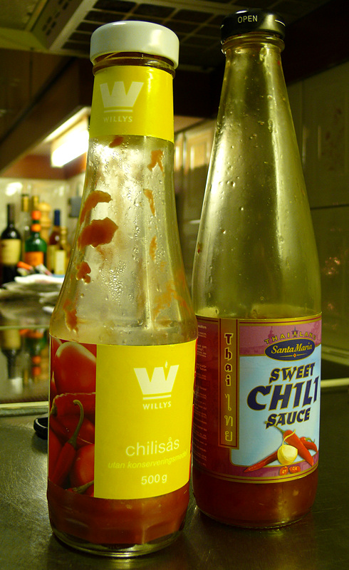 Some swedish chili sauces.